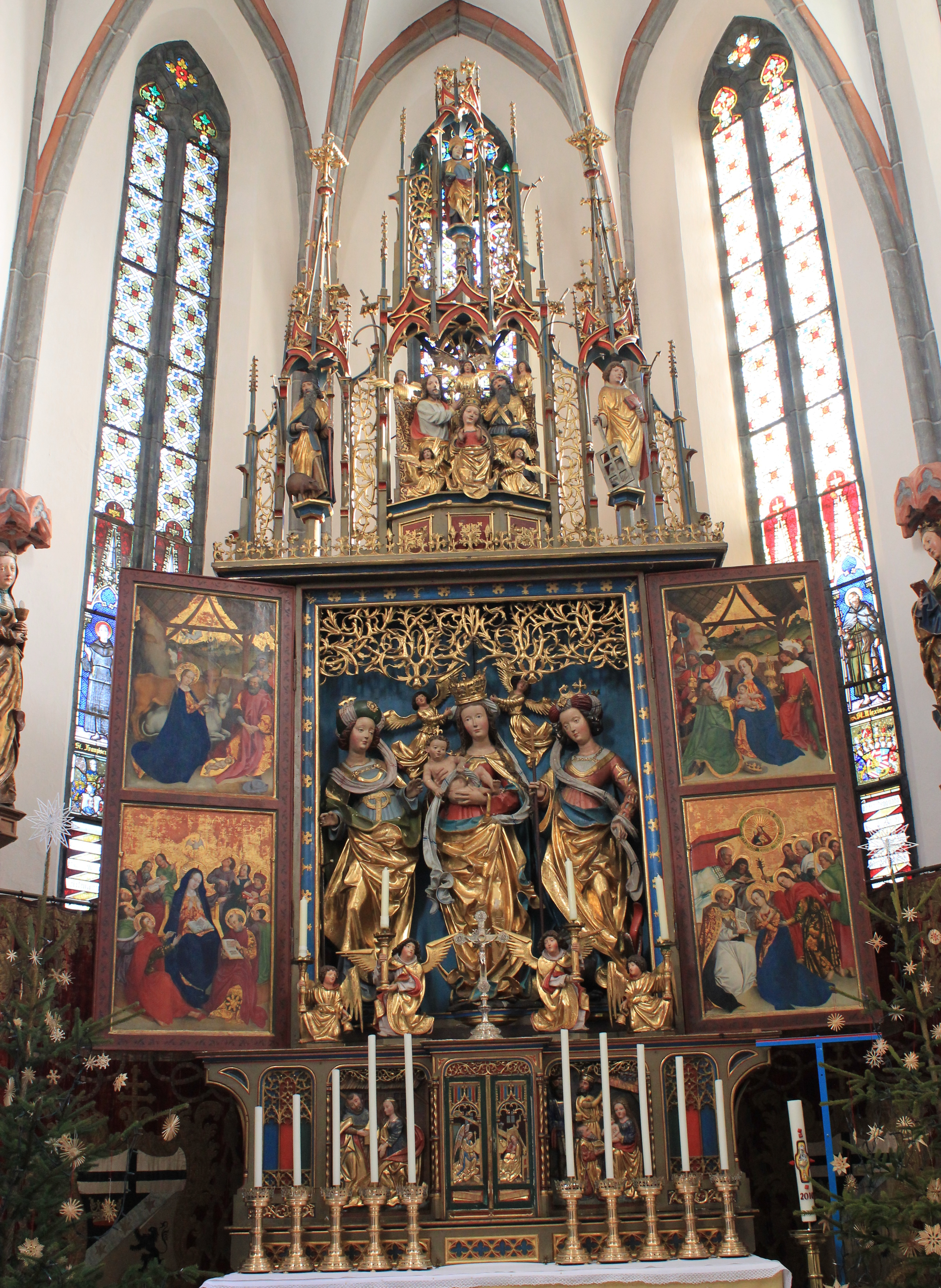 Church of Teutonic Knights in the city Friesach: Main-altar